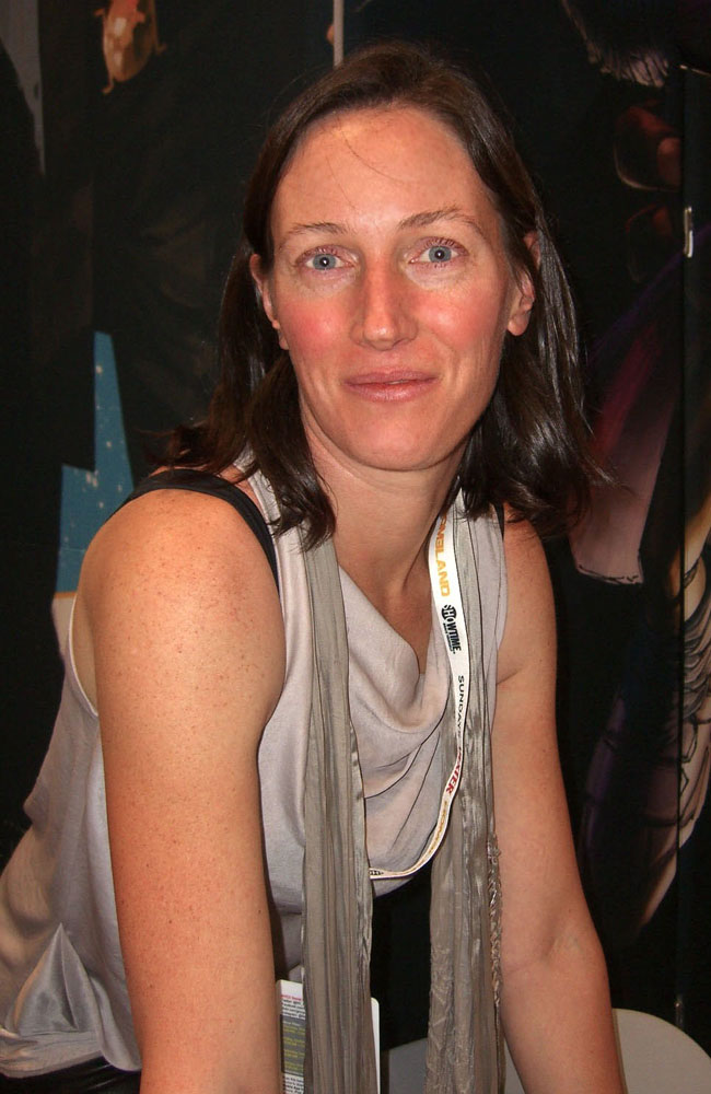 Music video director and comics writer Alex de Campi on Day 4 of the 2012 New York Comic Con, Sunday October 14, 2012 at the Jacob K. Javits Convention Center in Manhattan. This photo was created by Luigi Novi. It is not in the public domain, and use of this file outside of the licensing terms is a copyright violation.